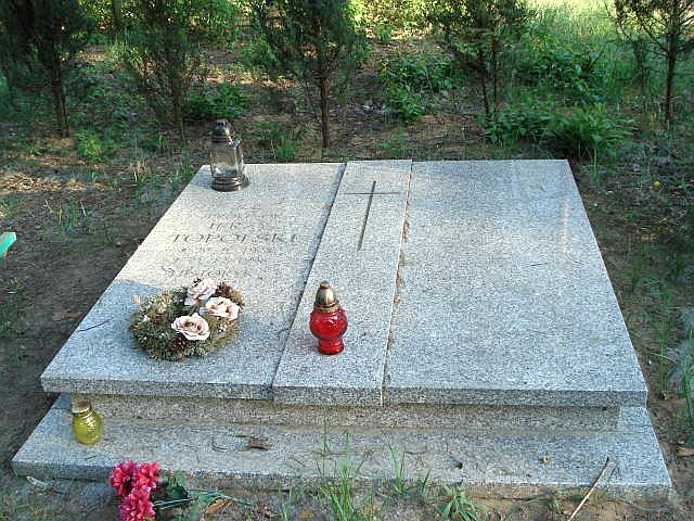 Gravestone Prof. Jerzy Topolski (1928-1998), Polish historian, at the Miłostowo Cemetery in Poznań